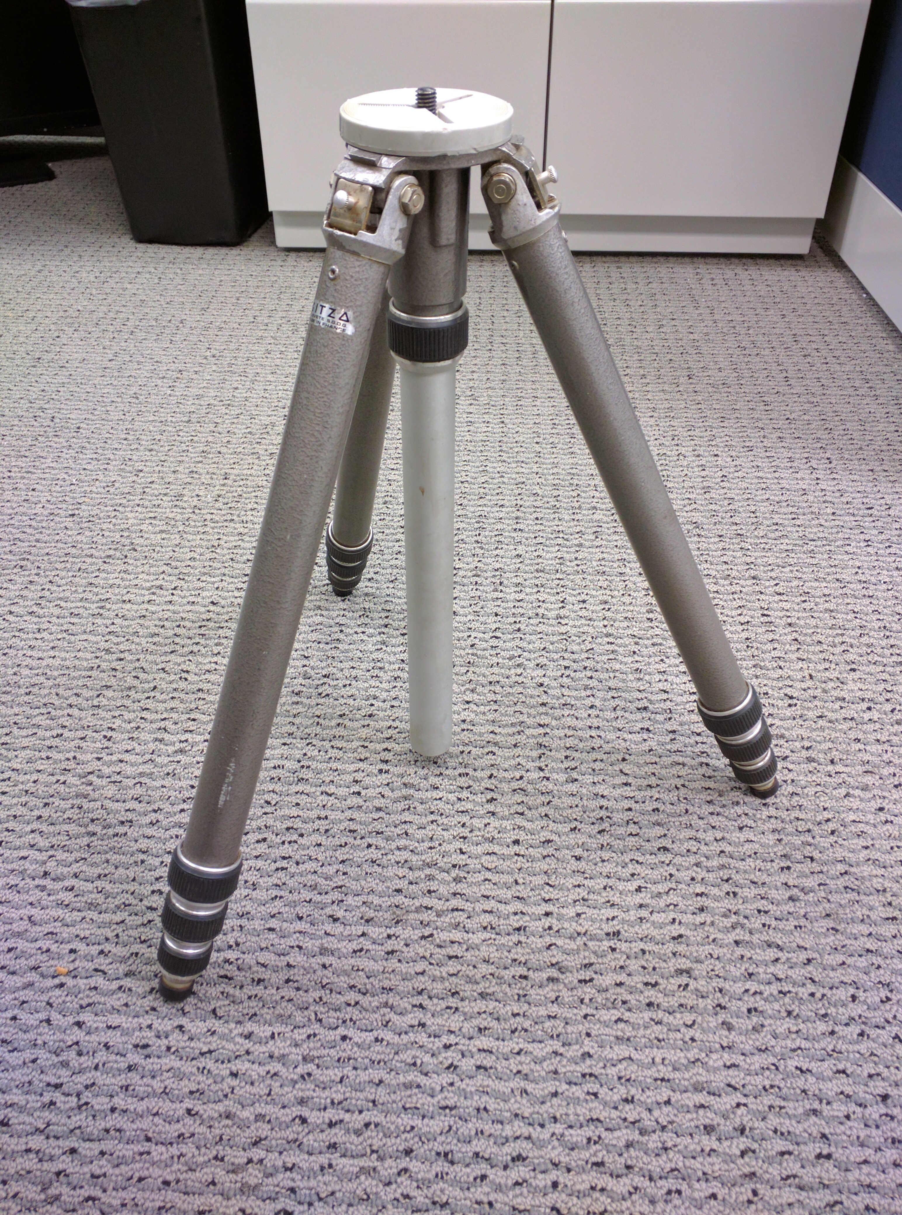 Tripod with 'standard' 24 degree leg spread, no extensions.